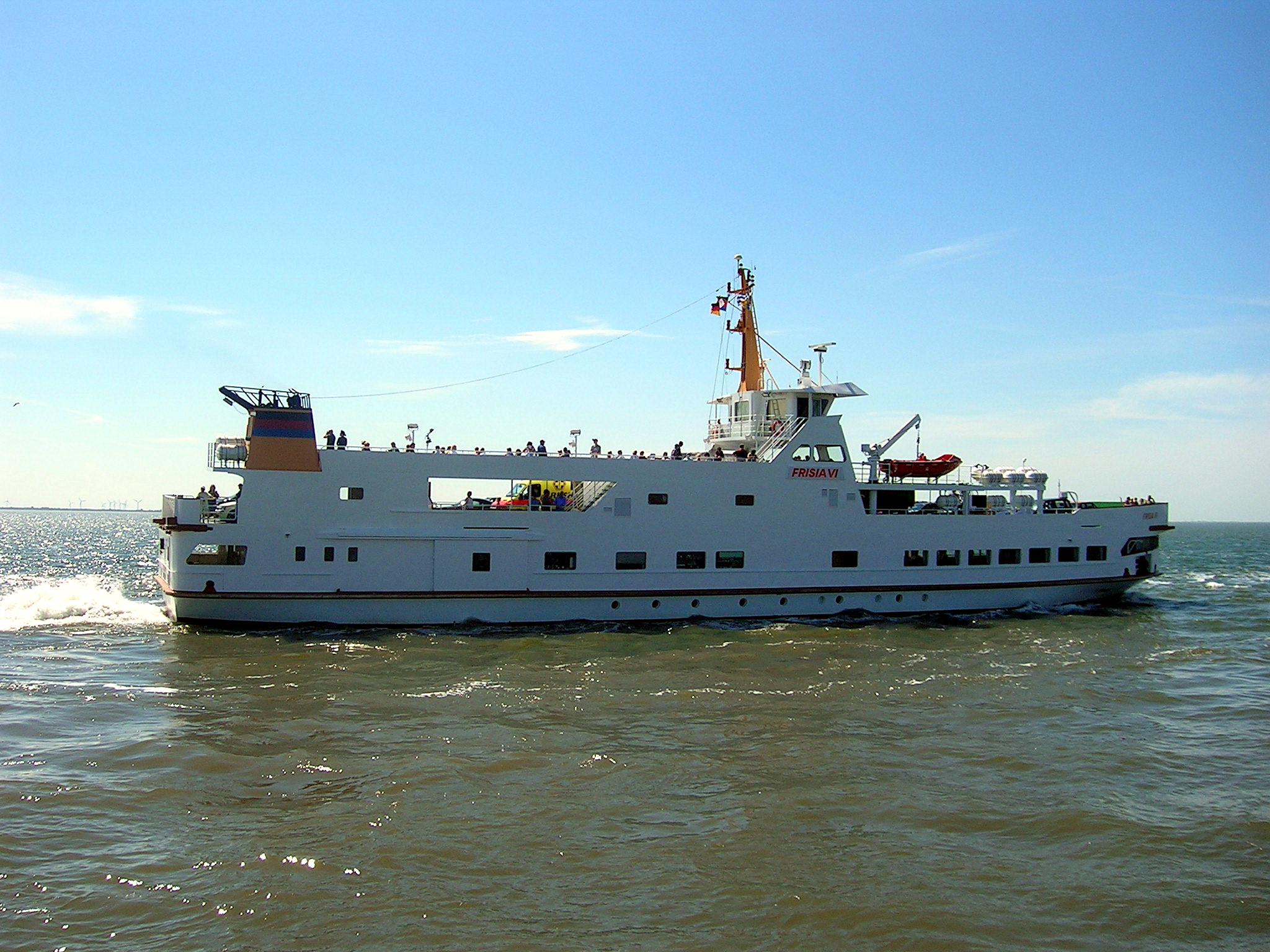 Frisia VI leaving Norderney Port.